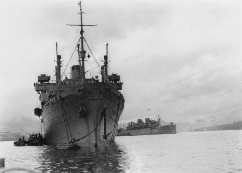 HMS Batory At a buoy.